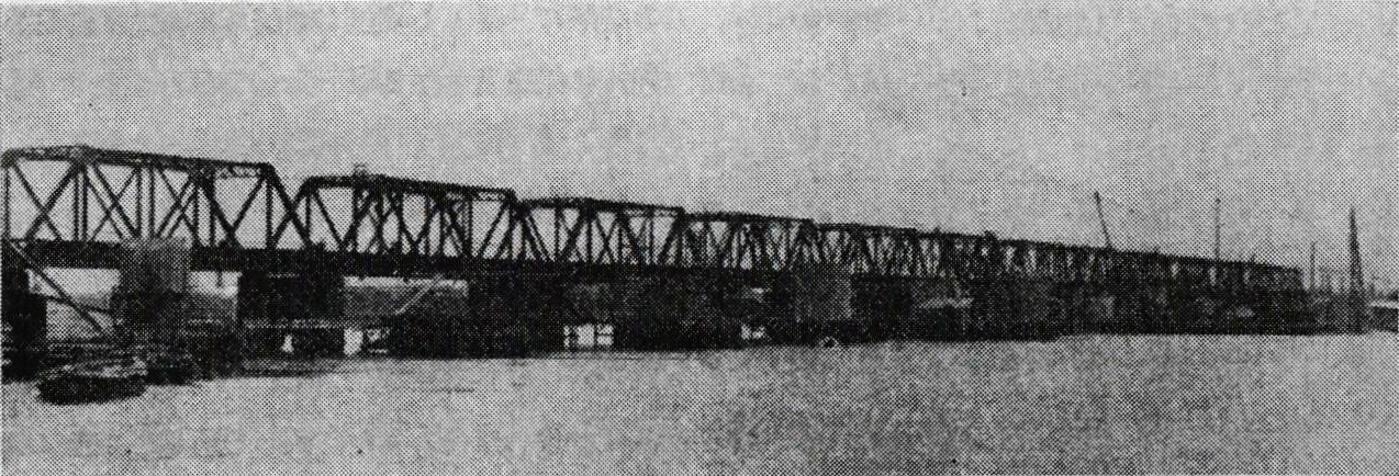 Shimo-Yodogawa bridge on Tokaido main line. This bridge was dismantled by 1974.